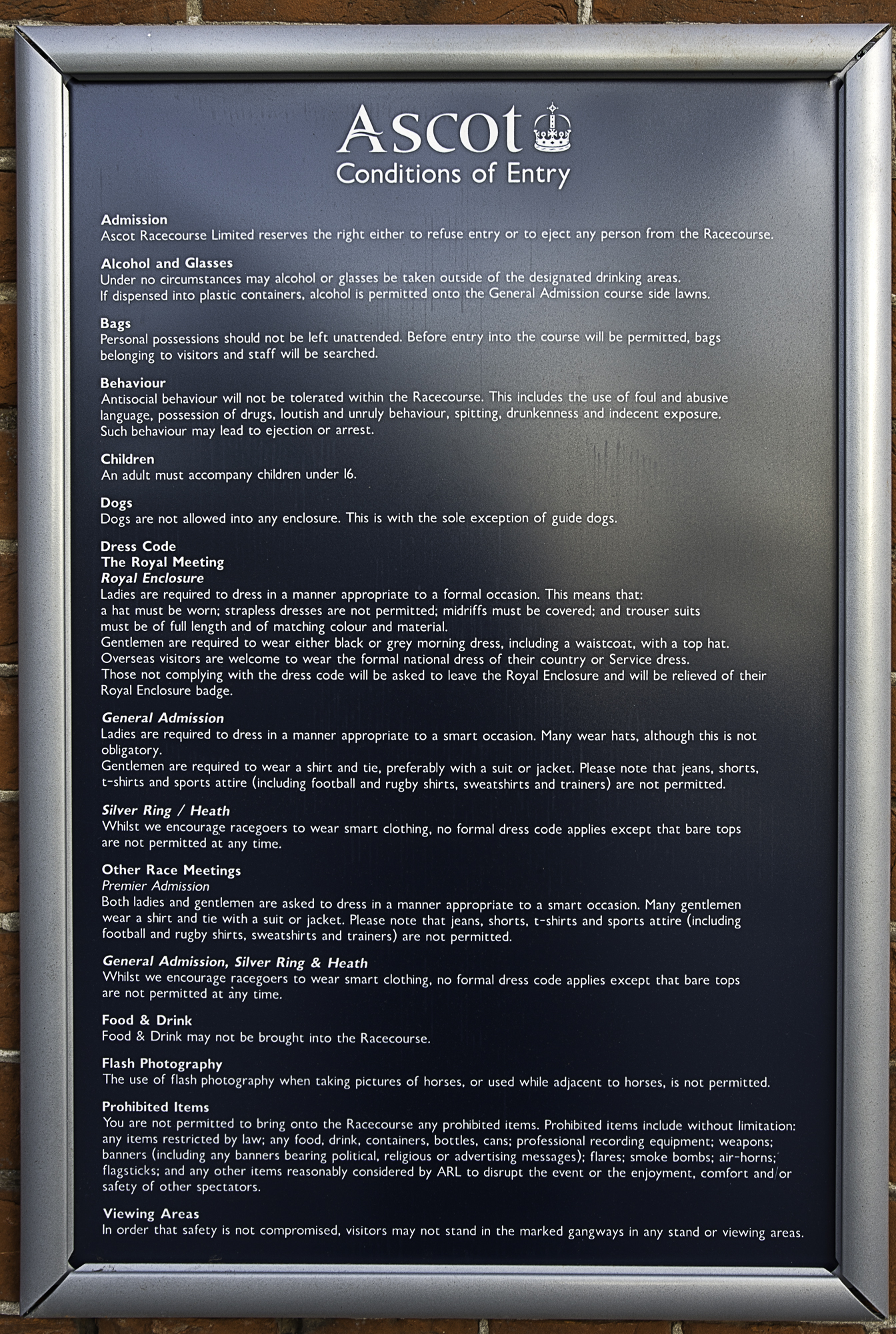 Dress & conduct rules for racegoers at Ascot - easily readable at full size